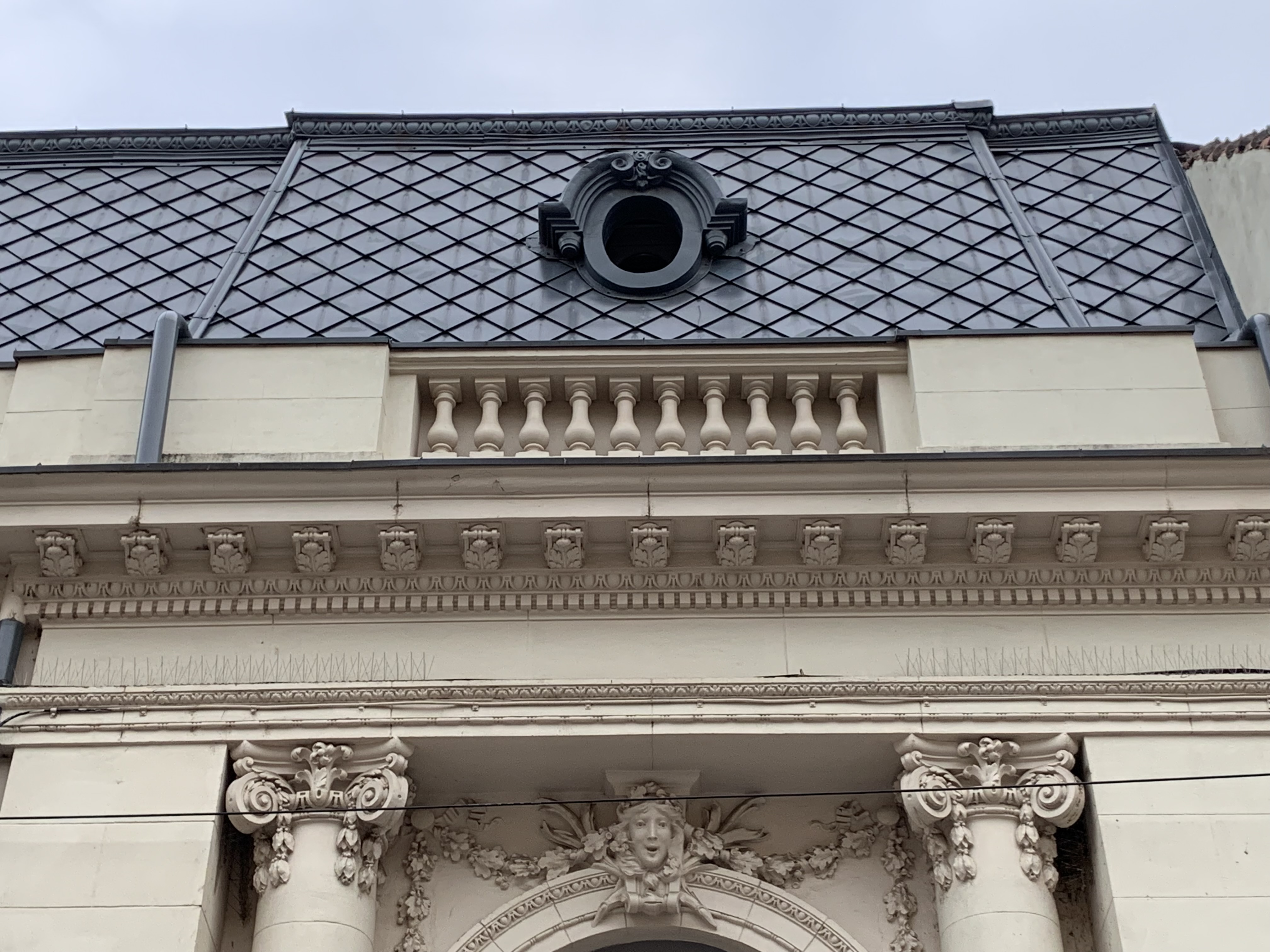 Very beautiful roof window of the house with no. 3 on Cristofor Columb street in Bucharest (Romania)